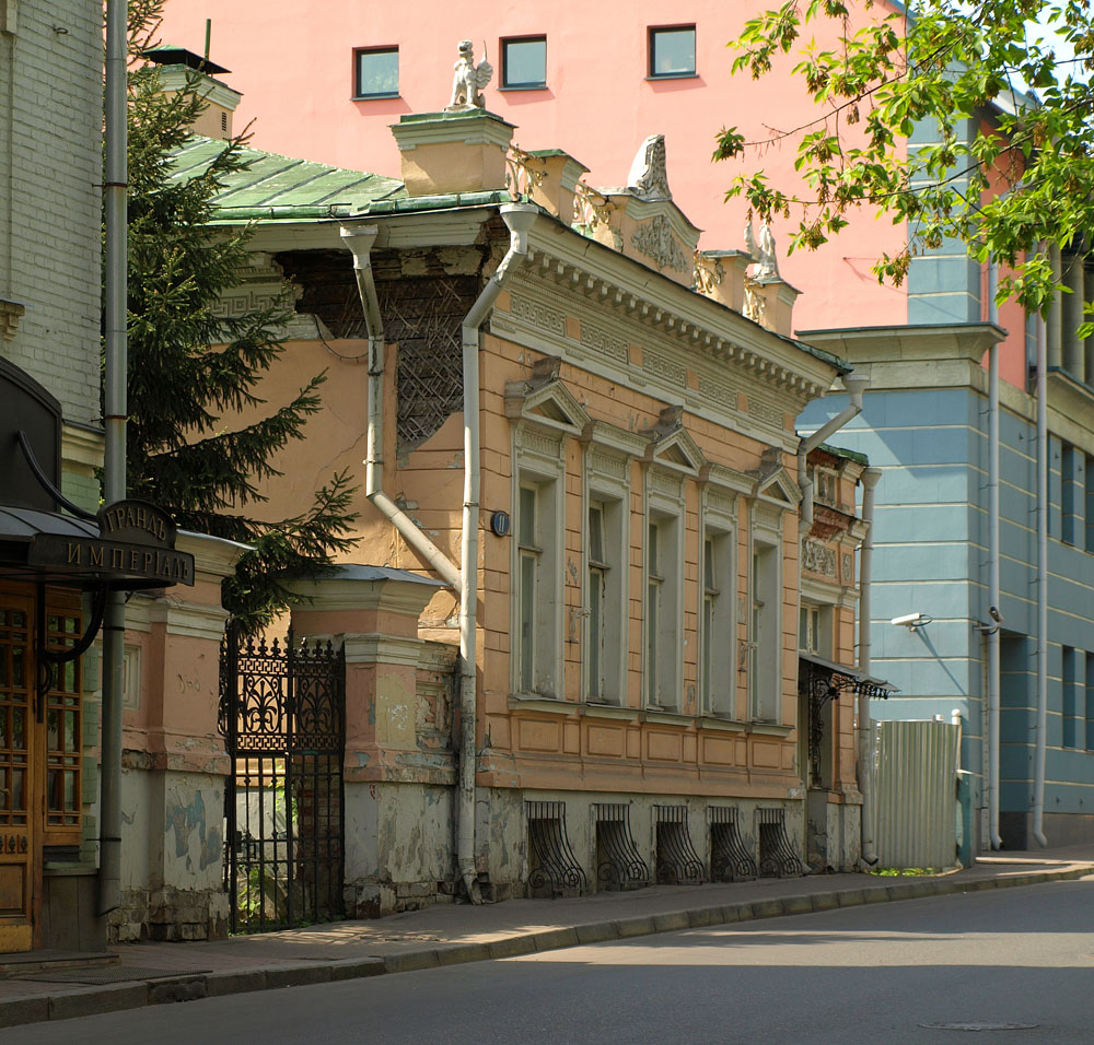 Gagarinsky Lane, Moscow. Embassy of Abkhazia in Russia